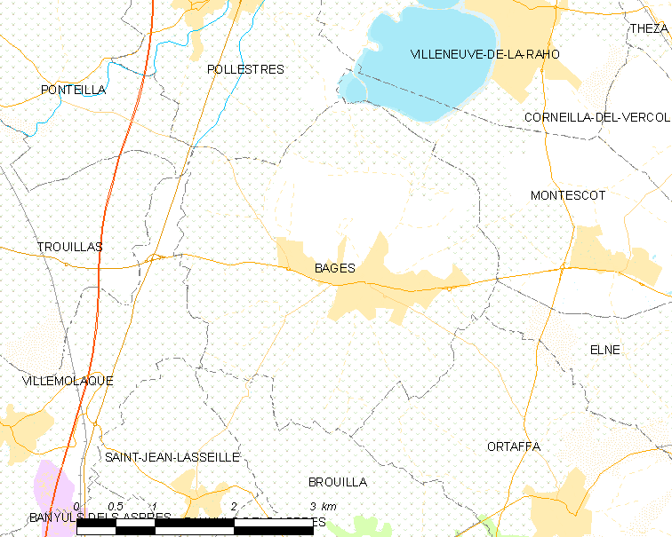 Map of French municipality